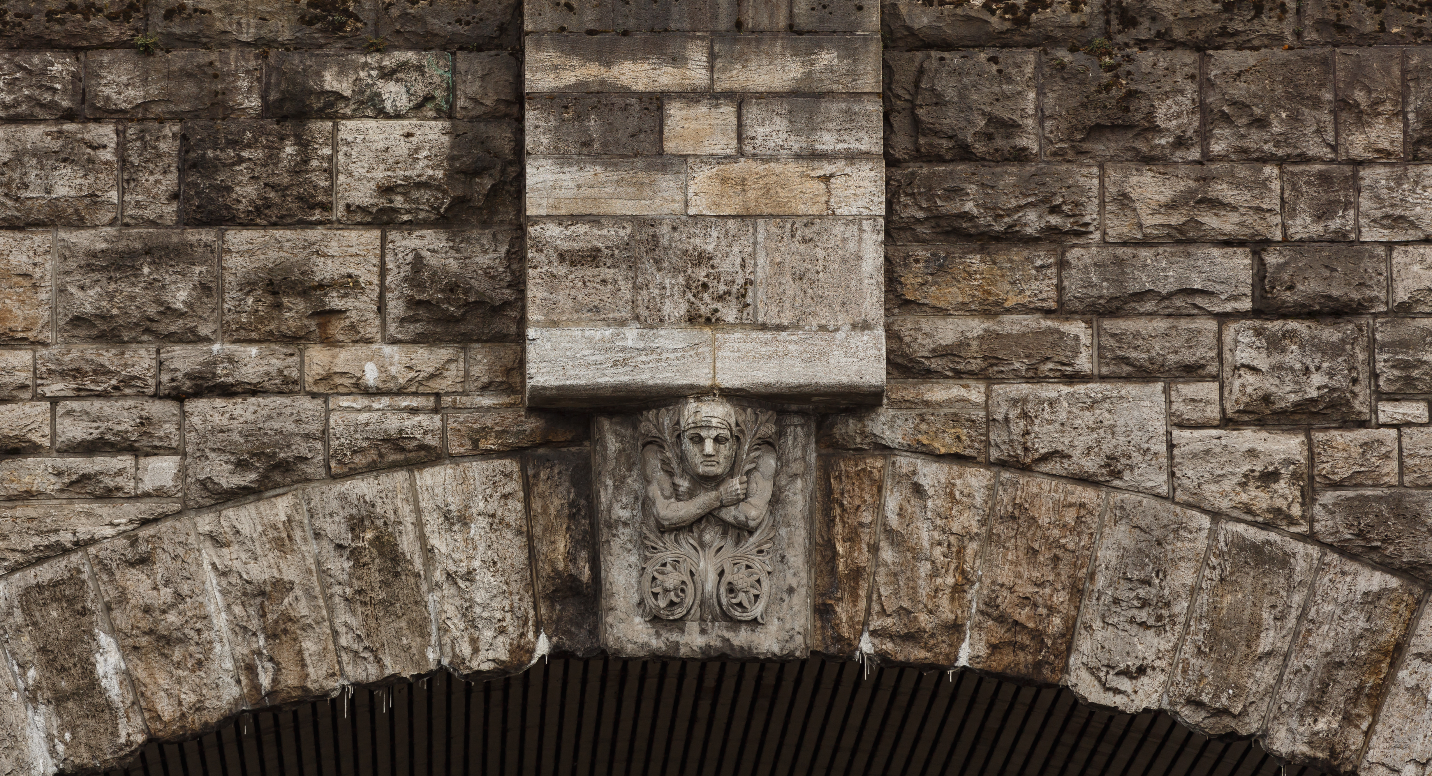 Cologne, Germany:Keystone of an arch of Hohenzollernbrücke